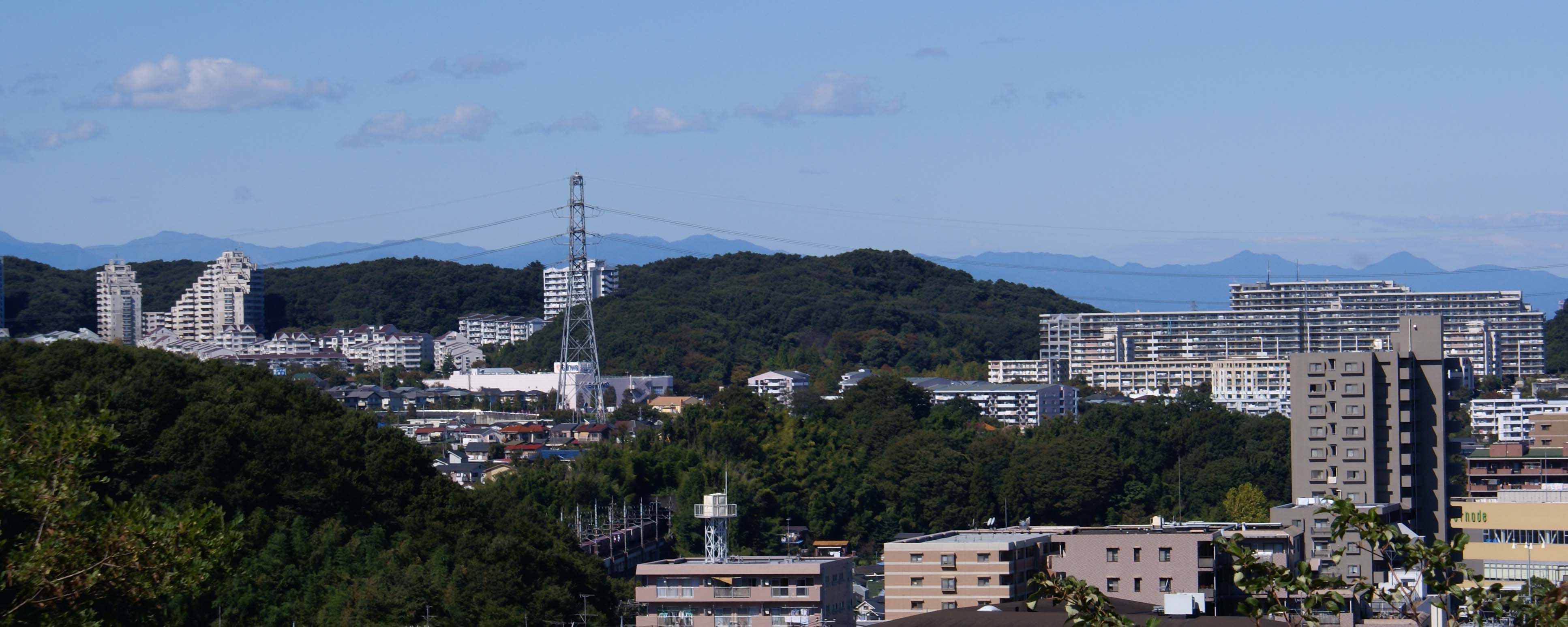 Shiroyamakoen view, Inagi